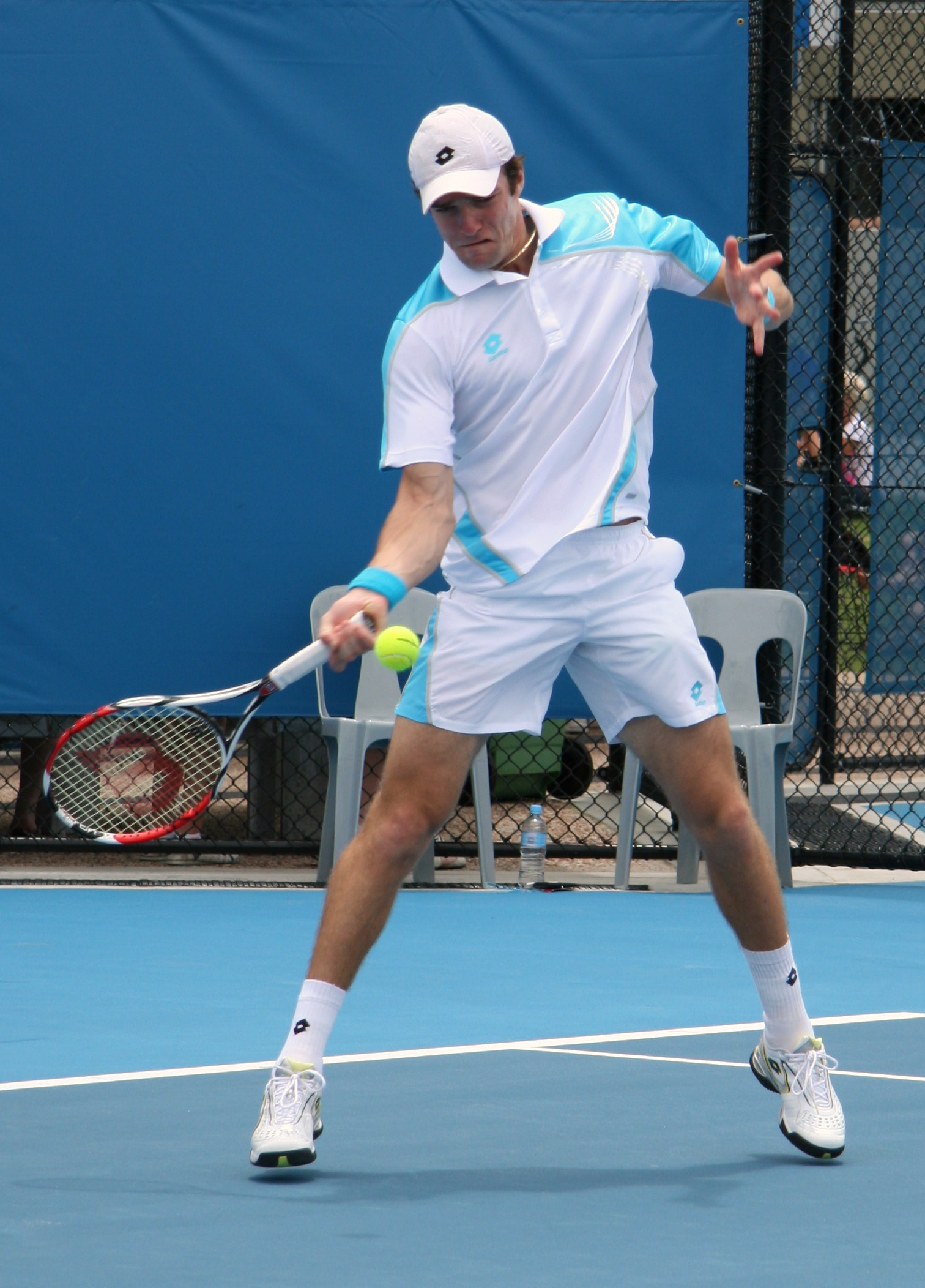 Teimuraz Gabashvili at the 2009 Brisbane International